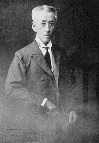 Nobukata Nambu